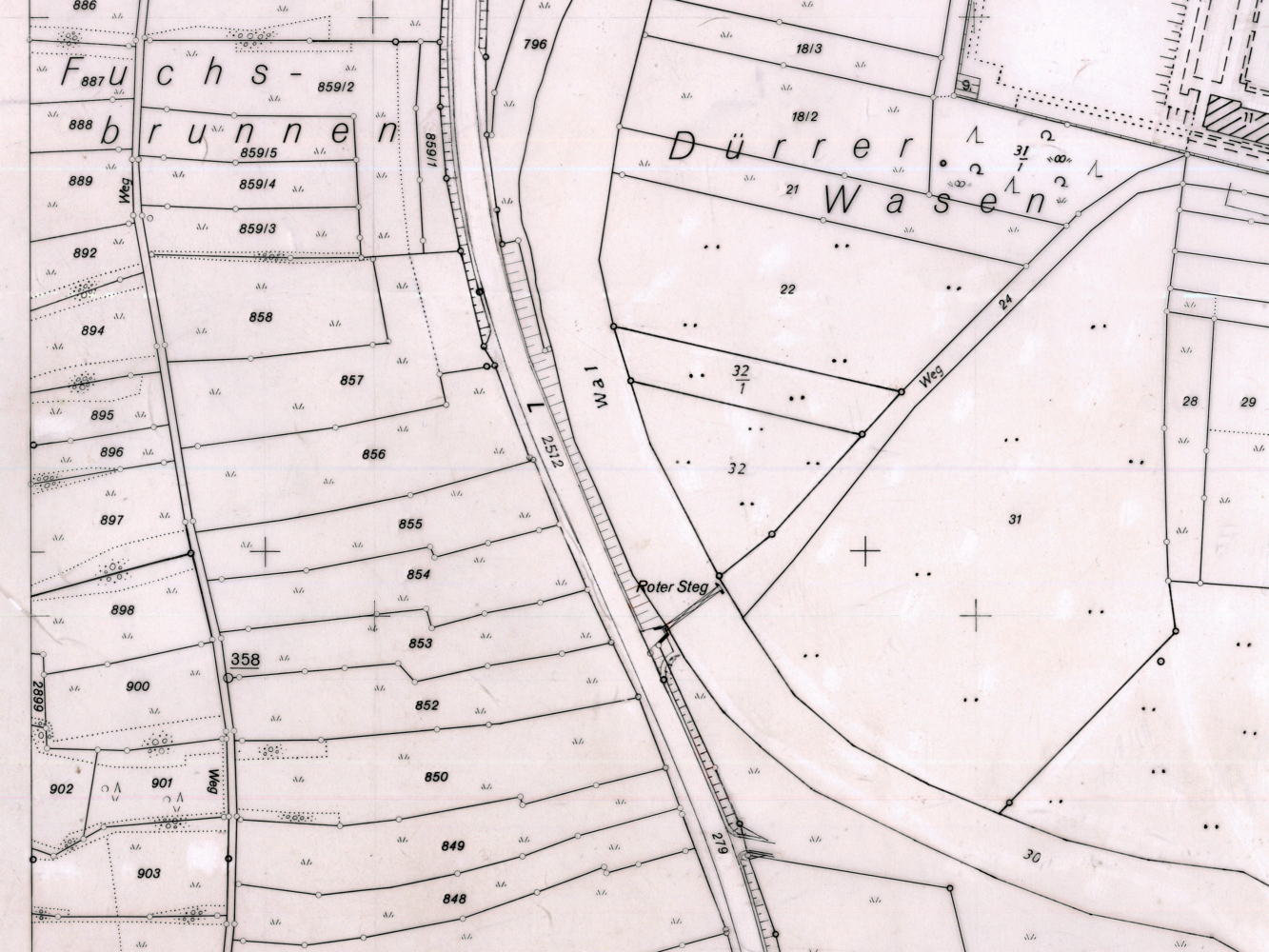 Example of a map in the cadastre of Baden-Württemberg in Germany